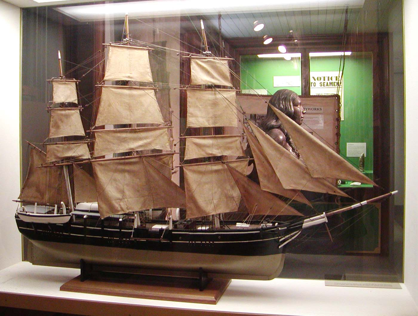 Photo of ship model (a whaler?) at Bishop Museum in Honolulu